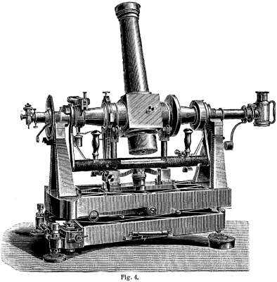 Transit Instrument